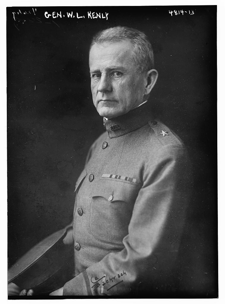 William Lacy Kenly circa 1918 by Bachrach